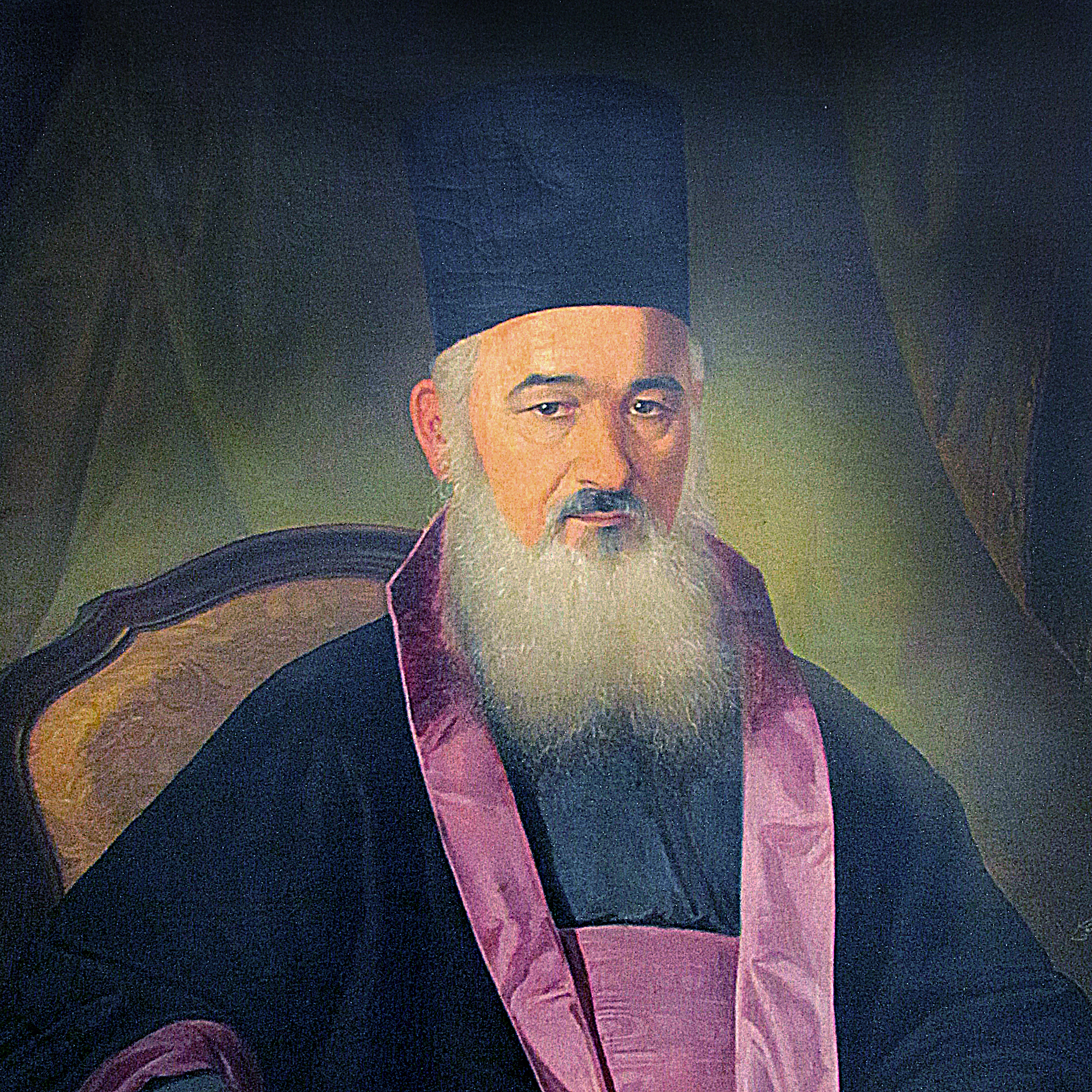 Jovan Pavlović priest from Šabac